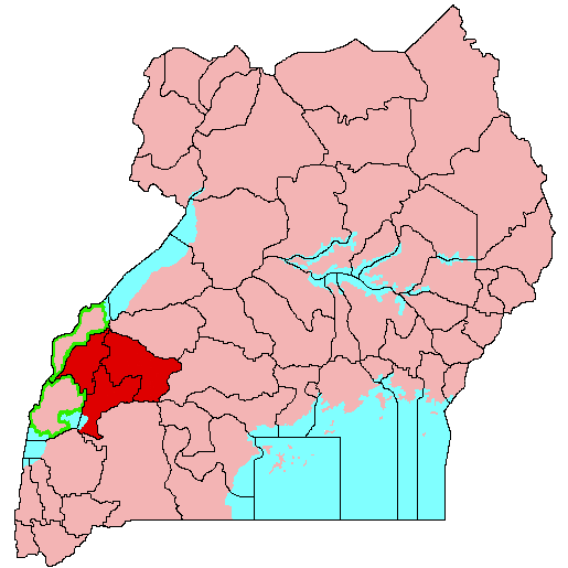 Ugandan kingdom of Toro and its districts Green highlighted are districts belonging to the original Kingdom of Toro Created by editing picture